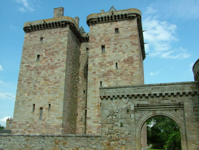 Borthwick Castle Borthwick Castle is great surviving U plan medieval castle. It was built by Sir William Borthwick in 1430 on the site of an earlier tower.